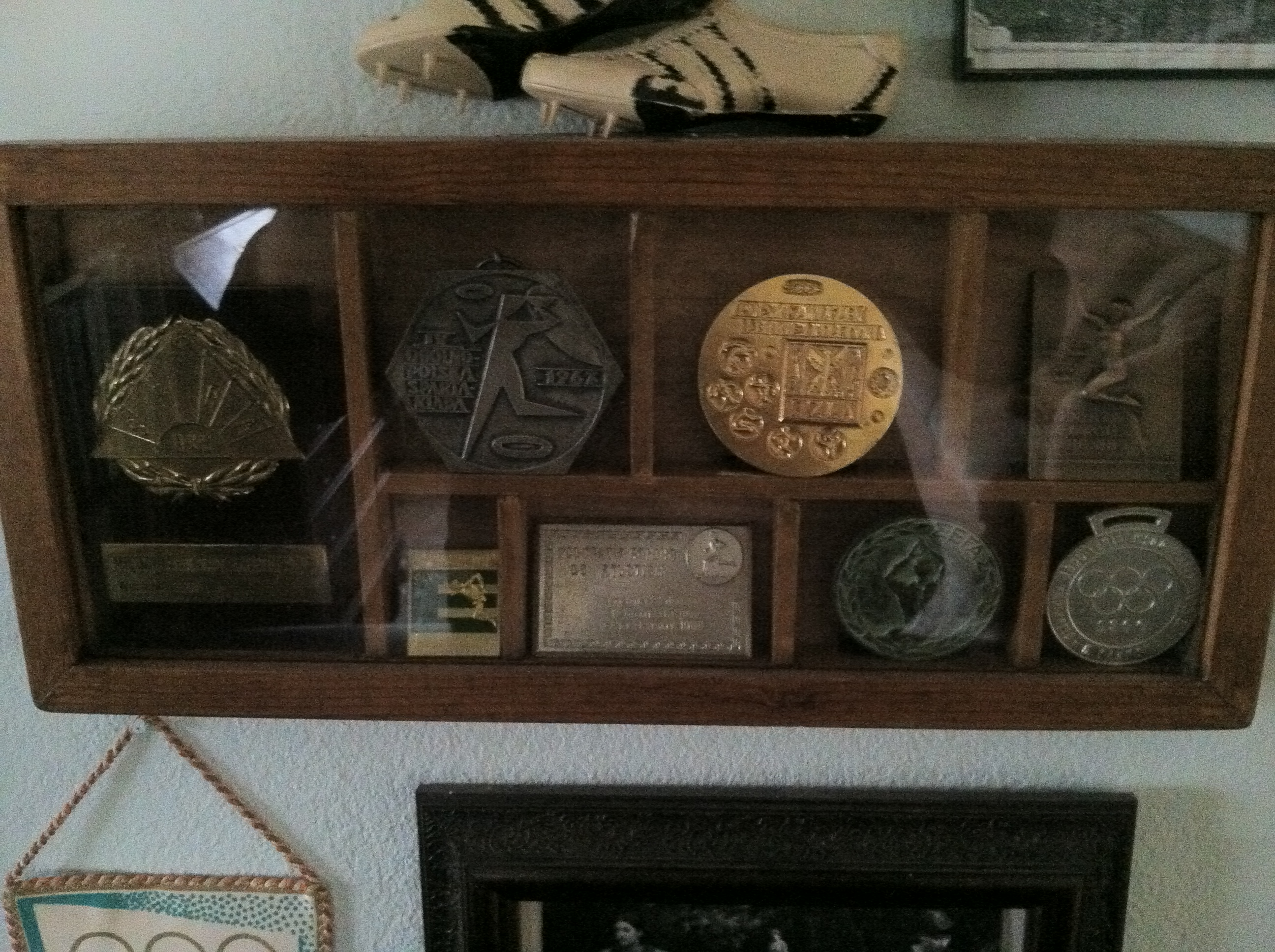 Medals